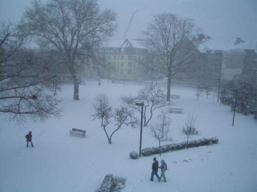 CWRU's Village at 115 dormitories (under construction) during a snowstorm